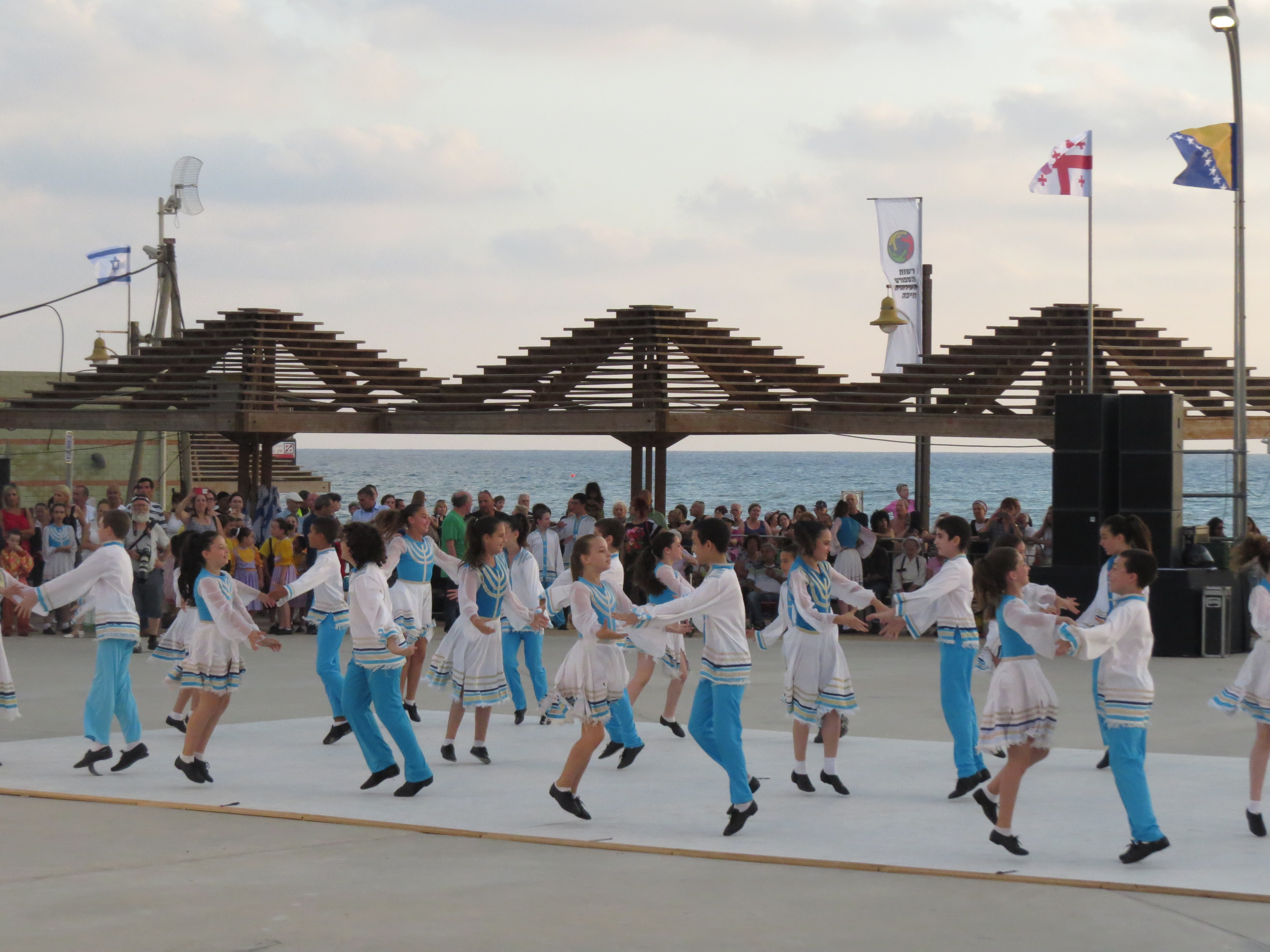 Folk dancing in Dado Beach, Haifa 2015